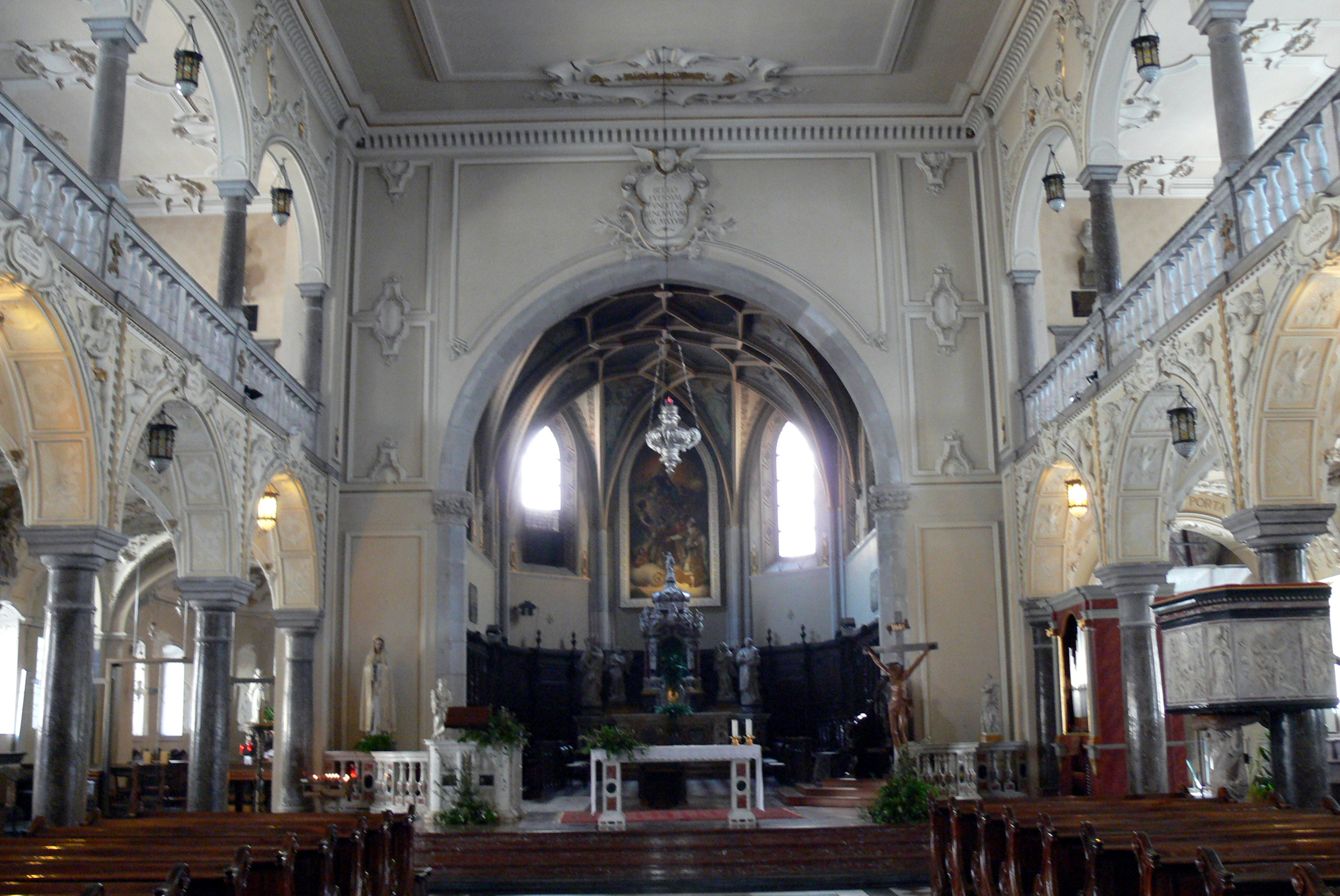 Gorizia ( Italy ). Cathedral: Interior.